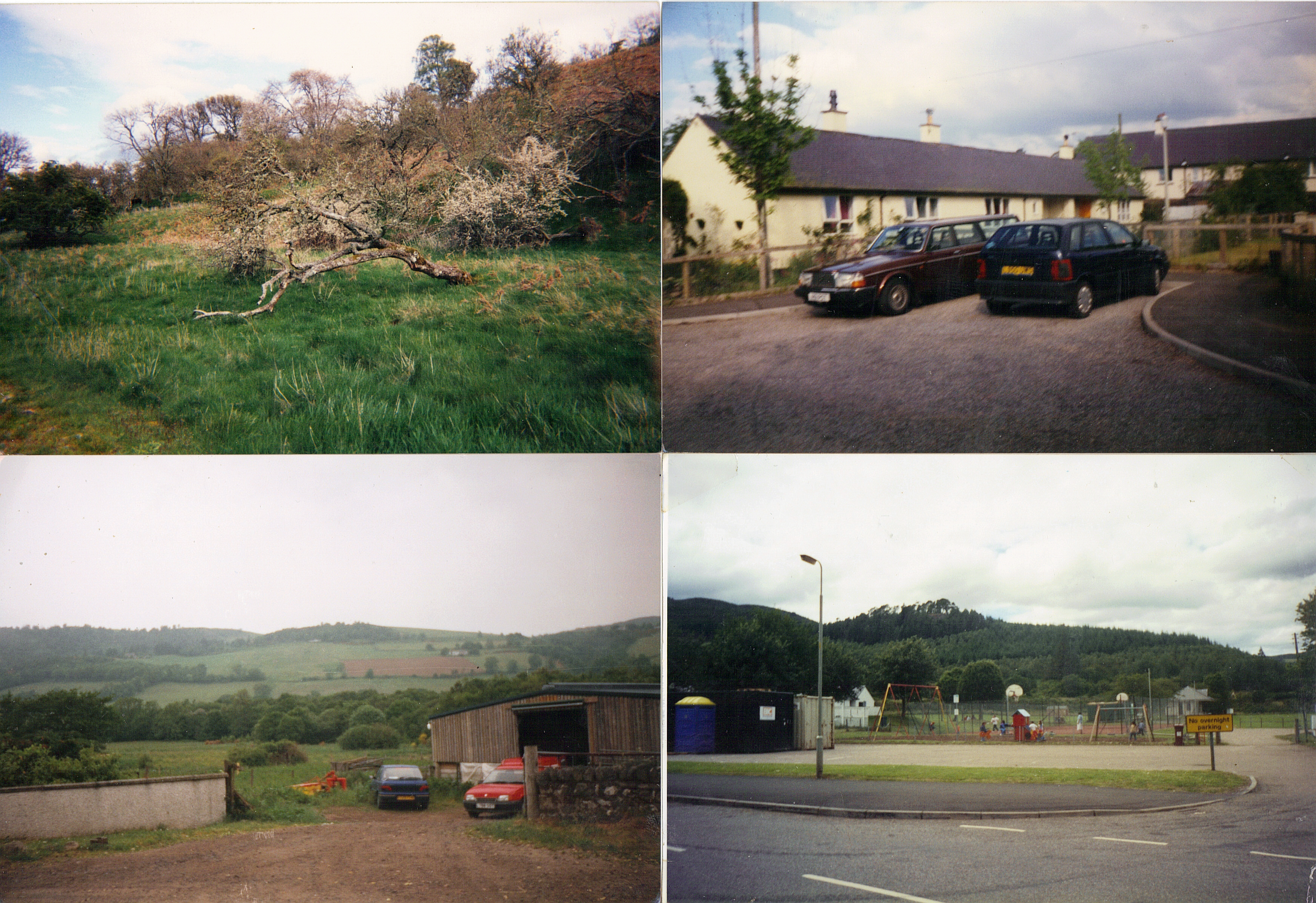 4 shots I took of Drumnadrochit in 1998.